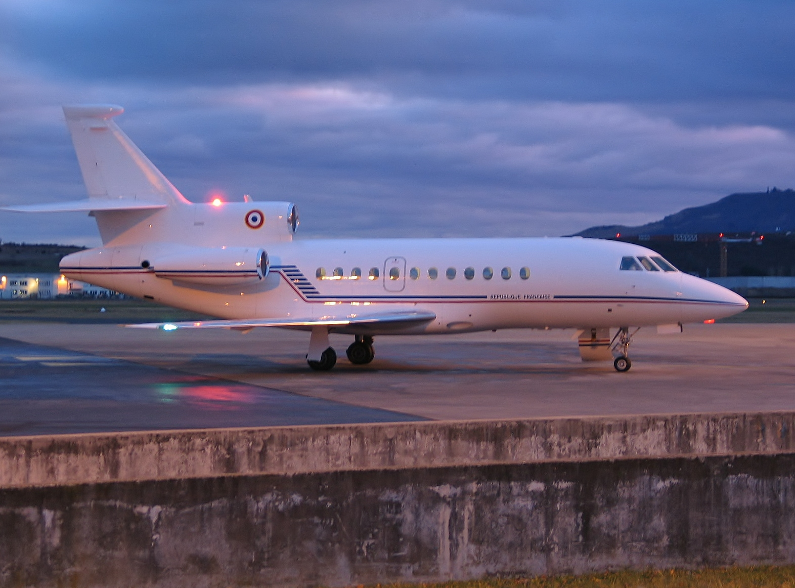 Falcon 900 of the French air force.